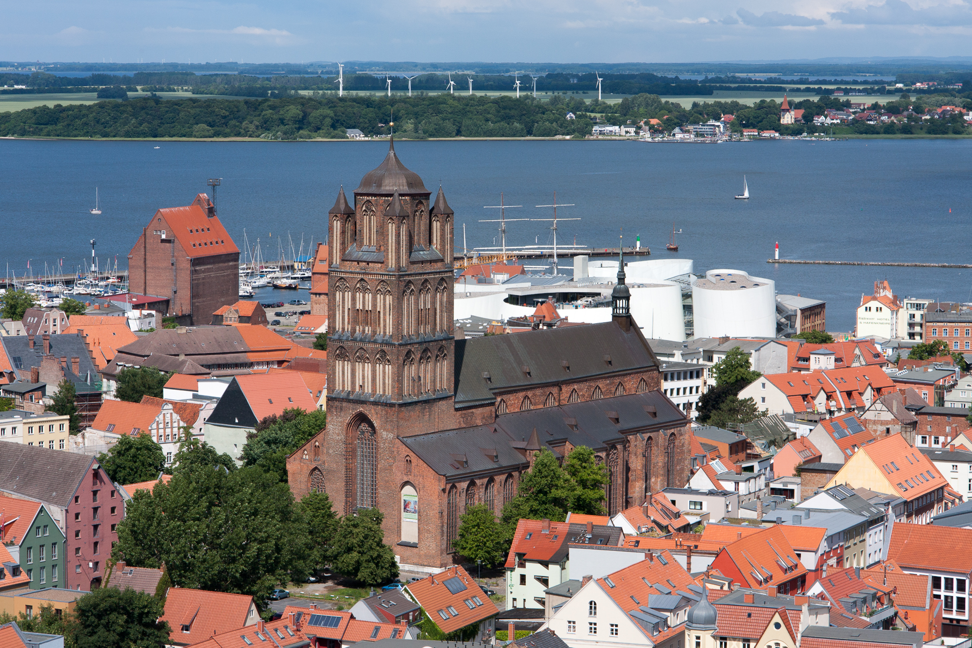 The church 'St. Jakobi', the 'Ozeaneum at the Strelasund strait, Stralsund, Mecklenburg-Vorpommern, Germany.